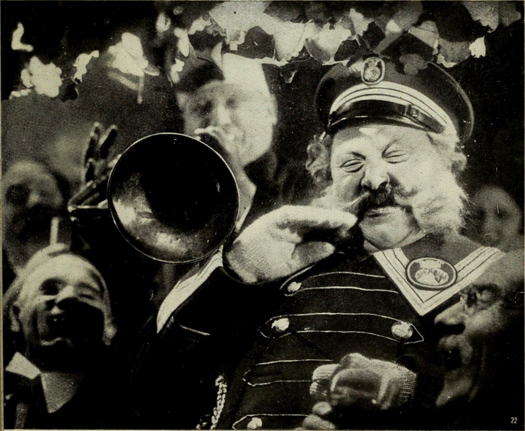 (109) Emil Jannings in The Last Laugh, directed by F. W. Murnau, 1925 German Camera Angles